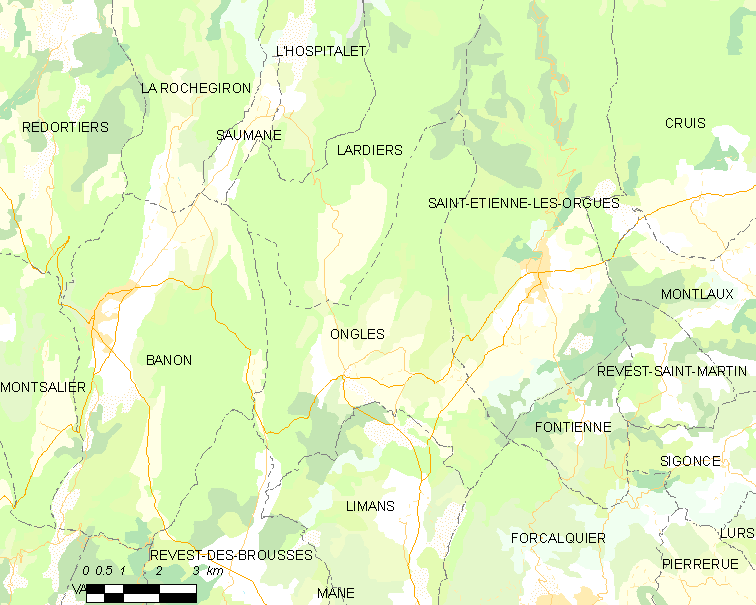 Map commune FR insee code 04141.png Légende